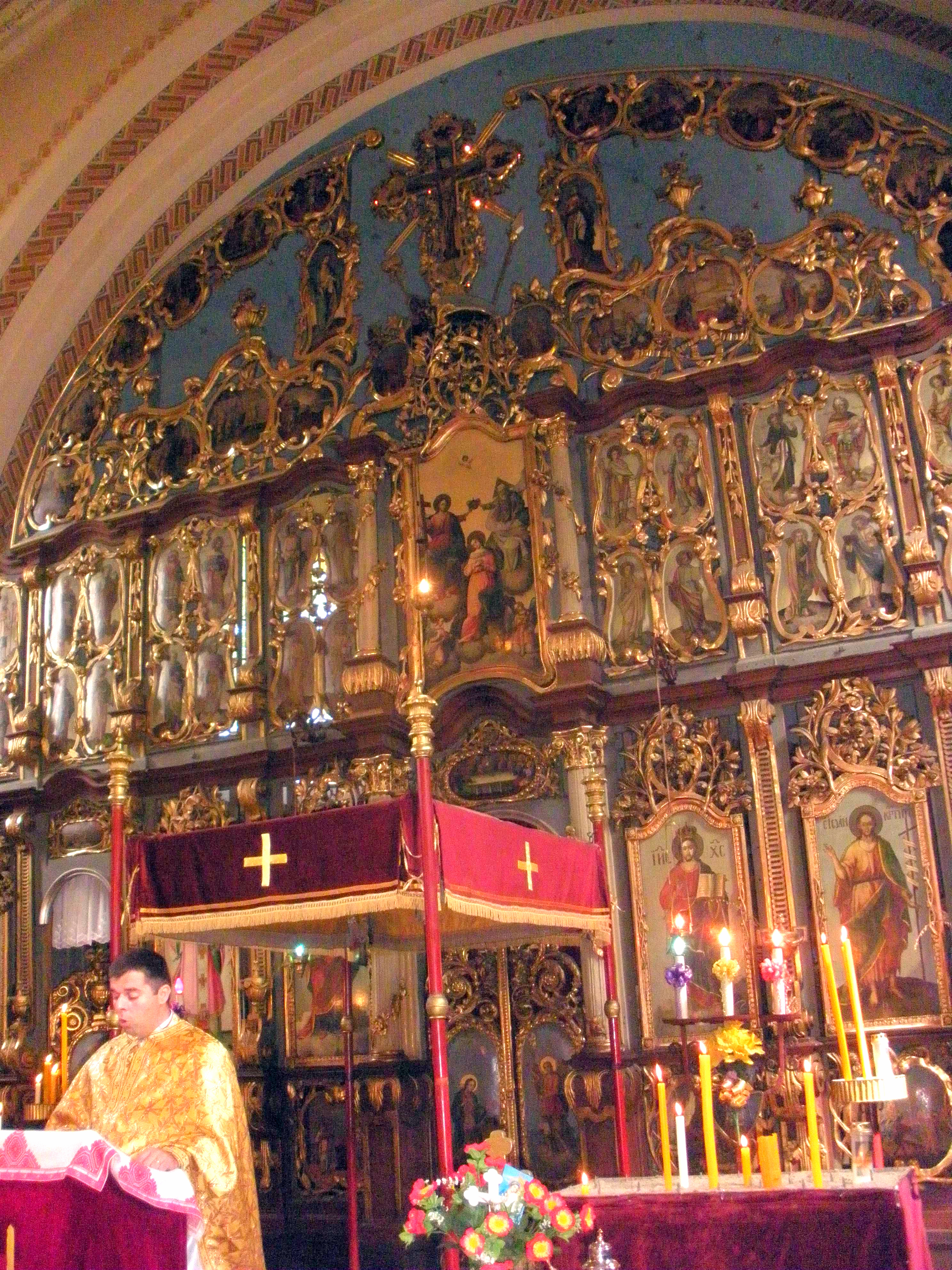 ikonostas in Romanian church during liturgy in honor of 125 years of choir